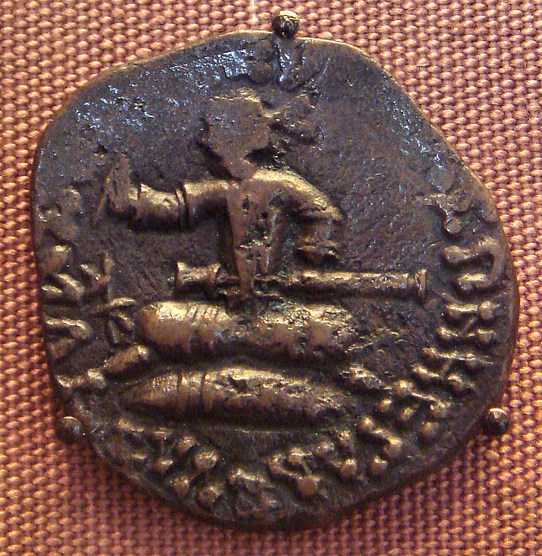 Coin of Azes I, with seated king. British Museum. Personal photograph 2005.